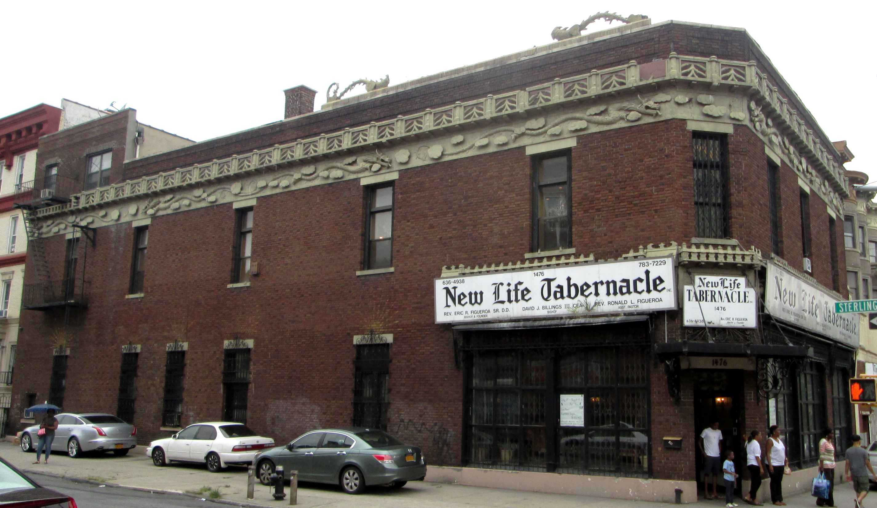 The New Life Tabernacle Church at 1476 Bedford Avenue at Sterling Place in the Crown Heights neighborhood of Brooklyn, New York City, is located in what was originally an automobile showroom on Bedford Avenue's Automobile Row; it is across the street from the Studebaker Building. From 1921 to 1966 it was Loehmann's which sold designer overstock of women's fashion clothing at cut-rate prices, and a similar store from 1966. The New Life Tabernacle Church was founded in 1983. (Sources: Brownstoner and Church Facebook page)